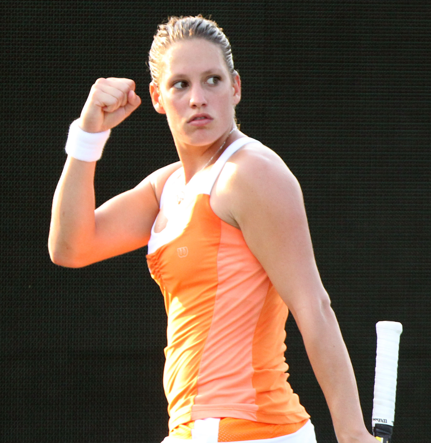 Citi Open Tennis July 28, 2011